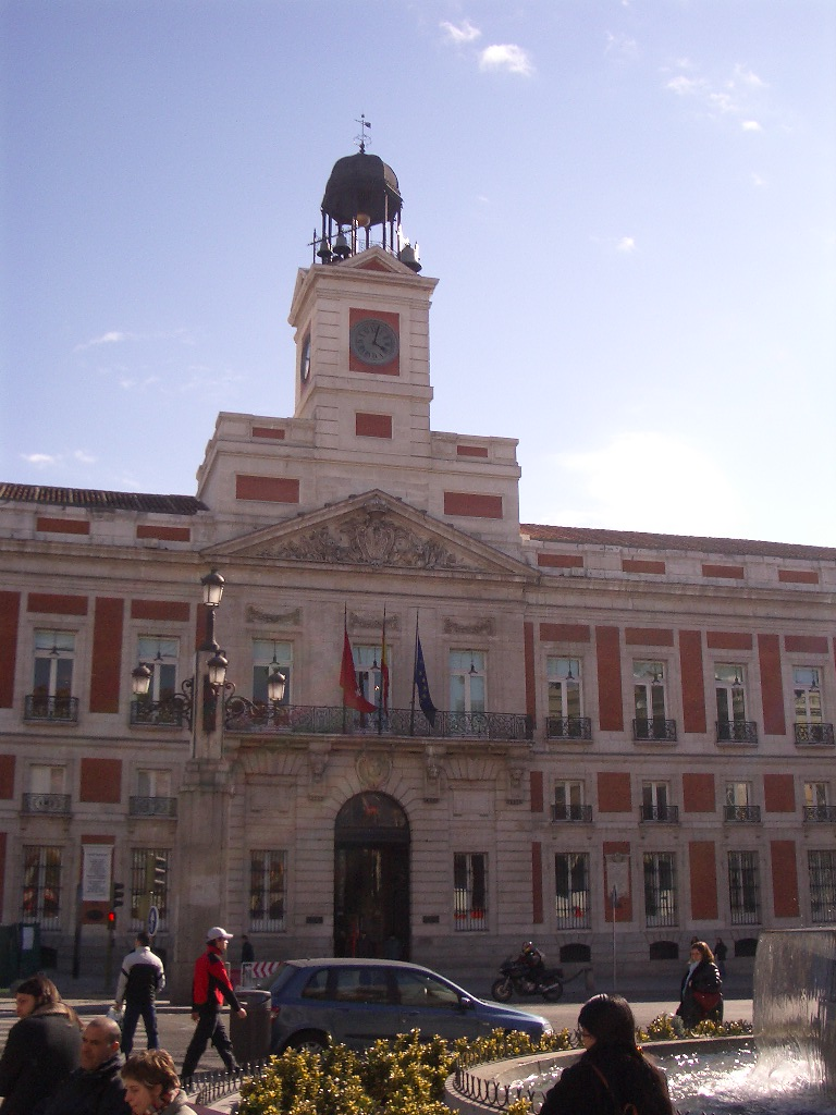 Puerta del Sol of Madrid Spain